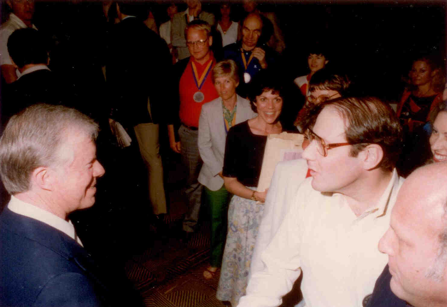 This photograph was taken in Hawaii in February 1982.